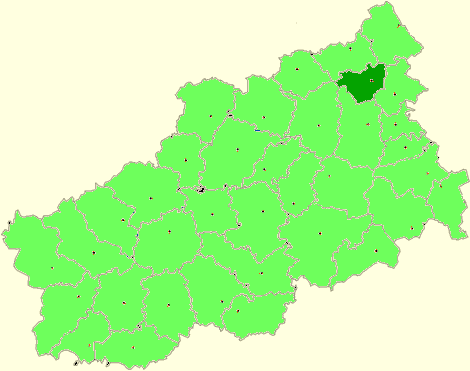 Tver Oblast map by Al Silonov